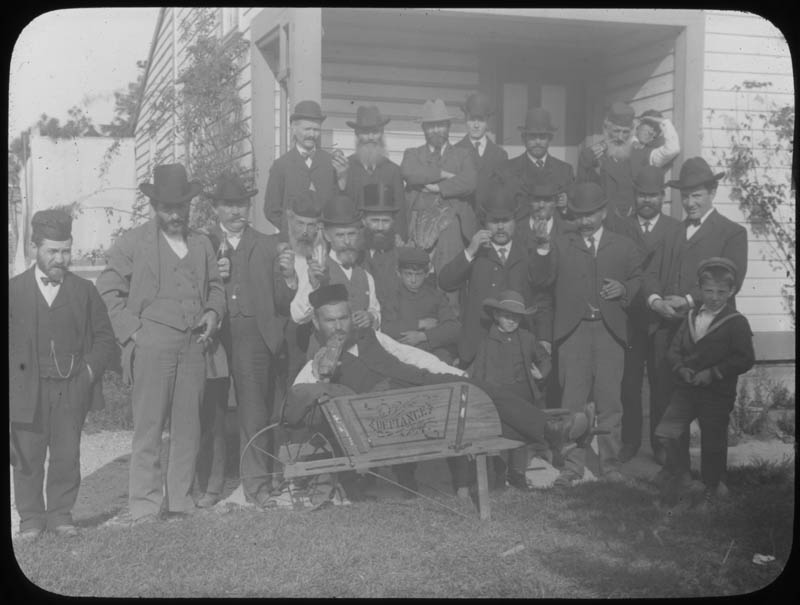 Description: Rejoicing in the Law - Simchas Torah Medium: Lantern slide Date:ca. 1900 Persistent URL: Repository: American Jewish Historical Society Parent Collection: Baron de Hirsch Fund Records, 1870-1991 Call Number: I-80 Rights Information: No known copyright restrictions; may be subject to third party rights. For more copyright information, click here. See more information about this image and others at CJH Digital Collections. To inquire about rights and permissions, or if you have a question regarding the collection to which the image belongs, please contact the Reference Department of the American Jewish Historical Society by email. Digital images created by the Gruss Lipper Digital Laboratory at the Center for Jewish History